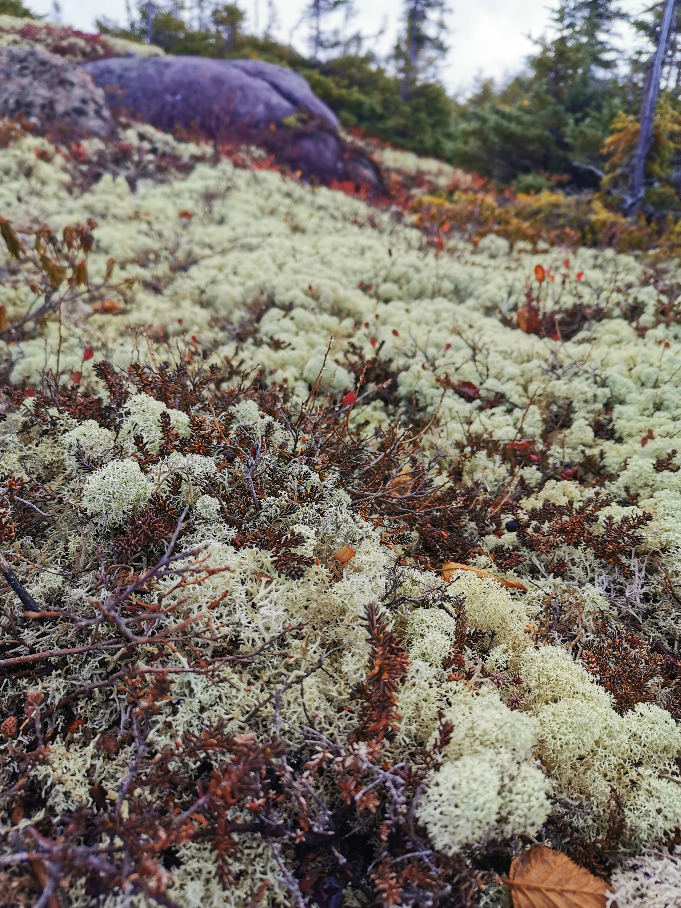 Boreal flaura in "Parc national des Grands-Jardins" in the Charlevoix region of the province of Quebec